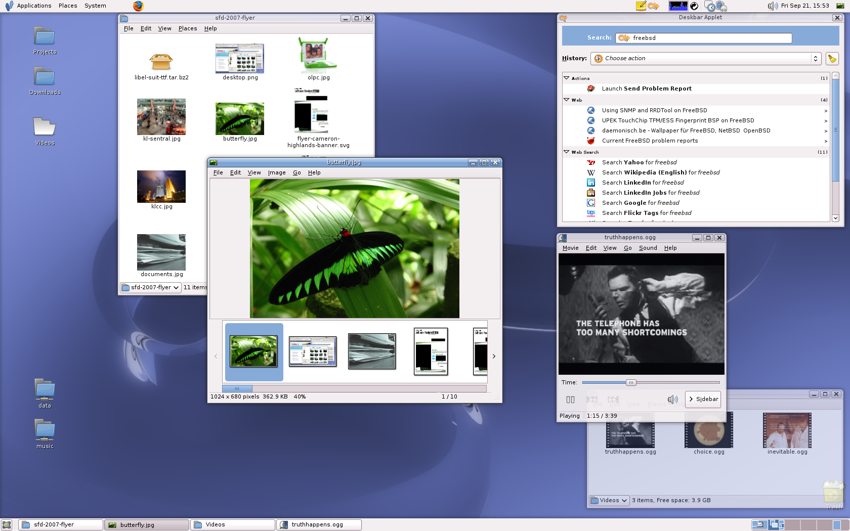 FreeBSD screenshot with Gnome 2.20